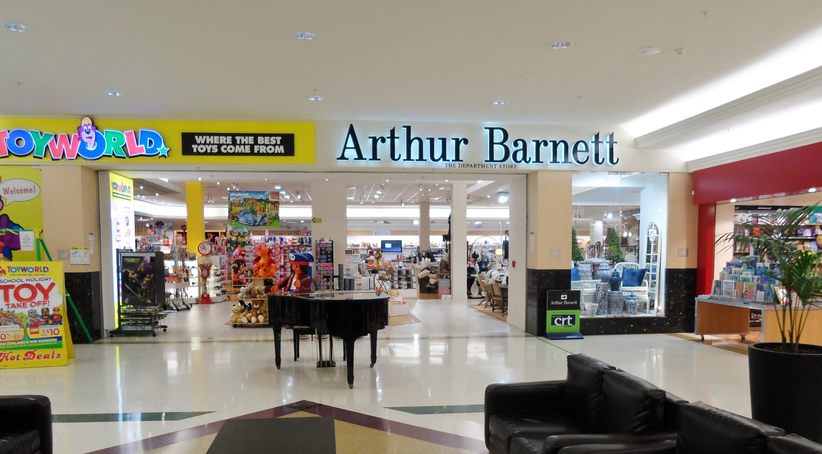 Main entrance to local department store Arthur Barnett and toy store Toyworld on the Ground Level of the Meridian Mall in Dunedin, New Zealand in October 2013. Summary Main entrance to local department store Arthur Barnett and toy store Toyworld on the Ground Level of the Meridian Mall in Dunedin, New Zealand in October 2013.